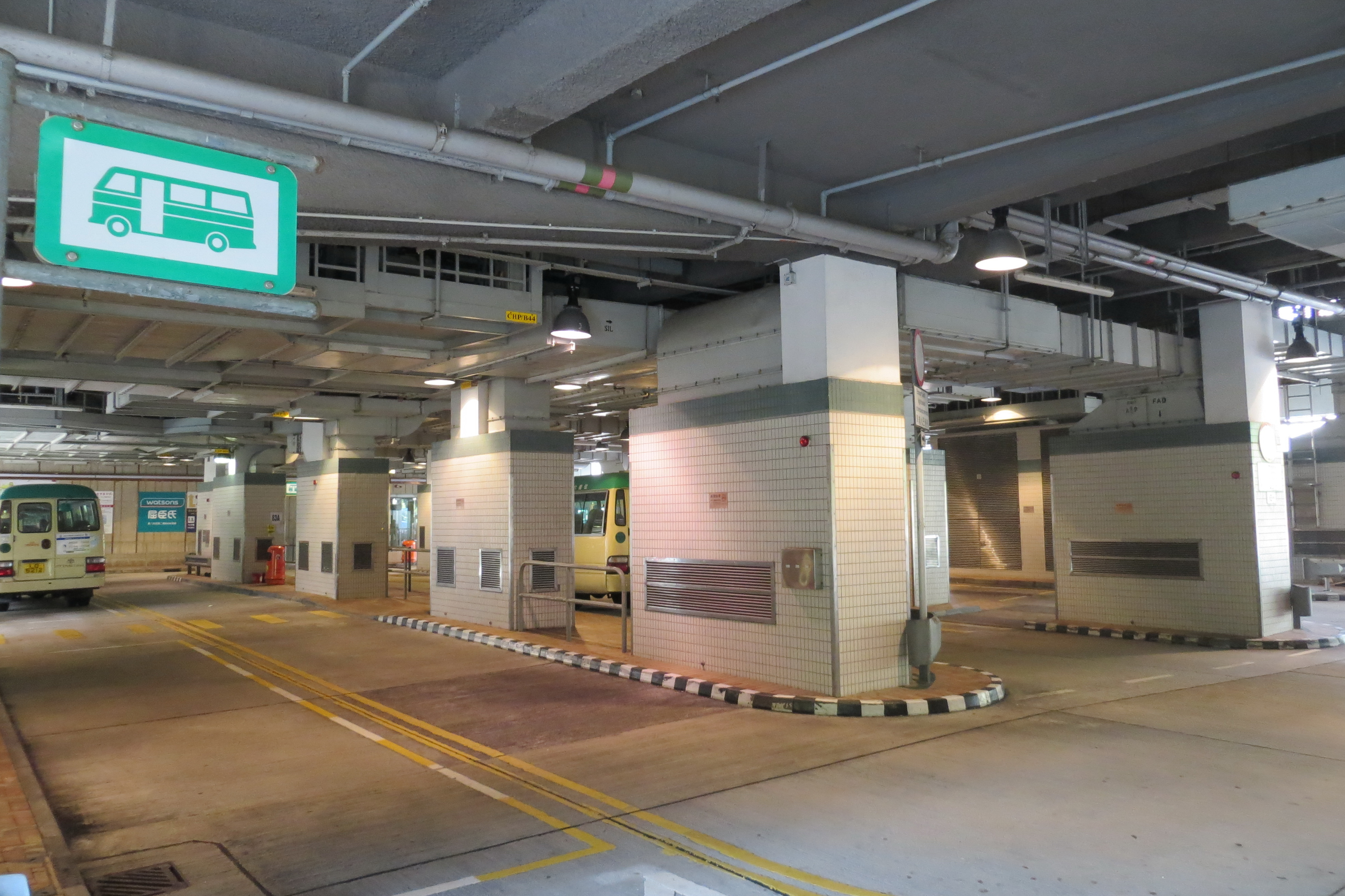 First floor of the Ping Shek Public Transport Interchange, Hong Kong.